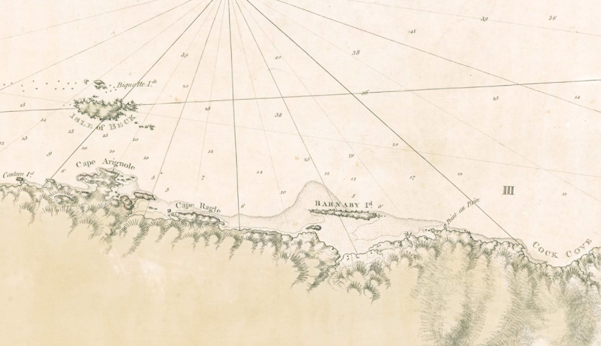 Map entitled: River of St. Lawrence, from Cock Cove near Point au Paire (sic), up to River Chaudière past Quebec, (1781, panel 4/4, cropped)